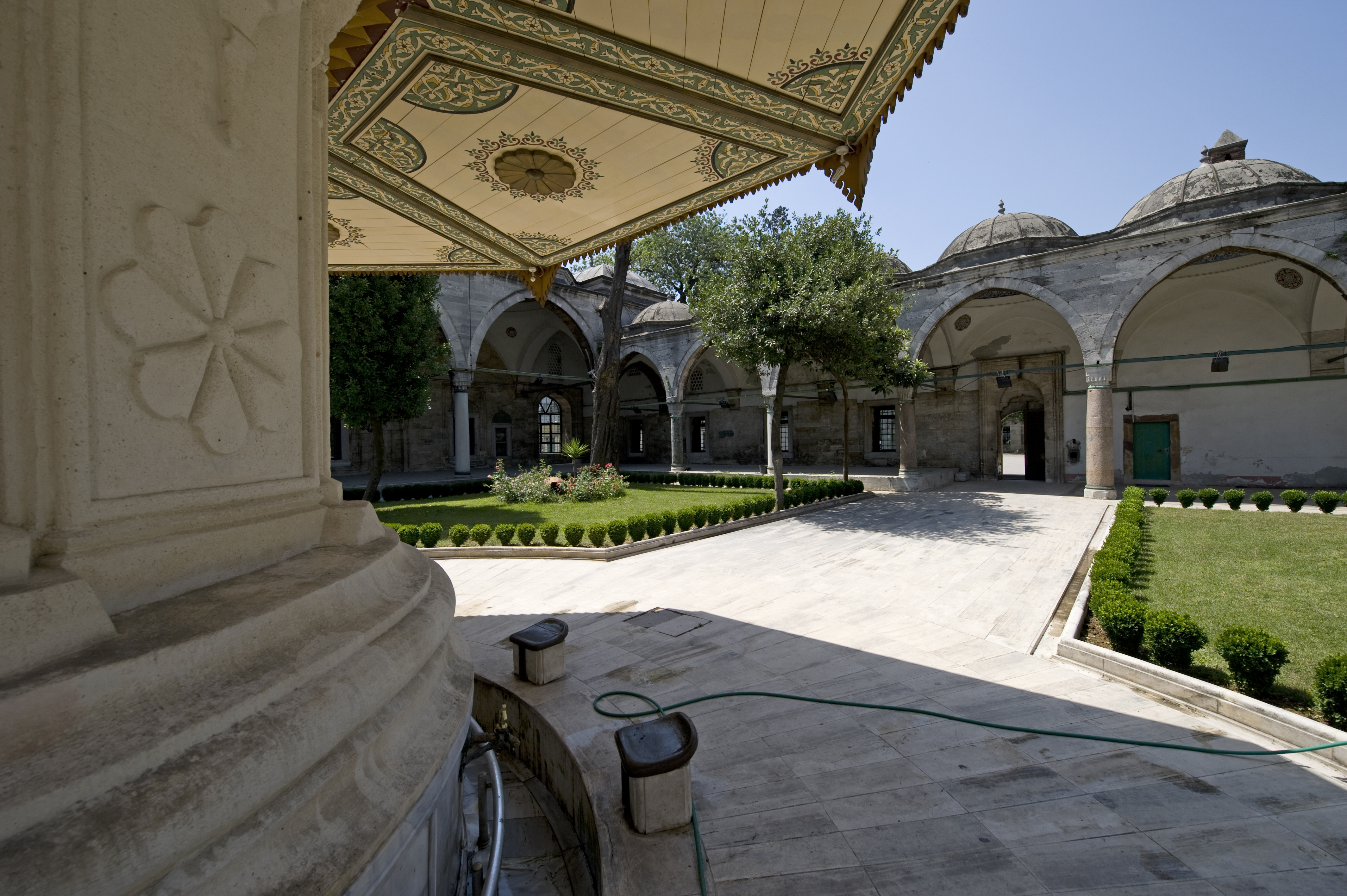 [The mosque] It was commissioned by Kara Ahmet Paşa (‘Black Ahmet’), a Grand Vizir (and brother-in-law) of Süleyman the Magnificent. He was married to Fatma Sultan, a daughter of Süleyman’s father Selim I. The building works started in 1555 (shortly before Ahmet Paşa died), and finished three years later under supervision of Rüstem Paşa, another Grand Vizier (and a son-in-law) of sultan Süleyman. The courtyard north of the mosque has a large şadırvan (fountain for ritual ablutions) in its center; it is surrounded by a medrese, with cells for the students and a dershane (main classroom). The türbe (mausoleum) of Kara Ahmet Paşa (built 1558) stands next to the mosque. Info from J.M.Criel, Antwerpen. Sources: ‘Türkiye Tarihi Yerler Kılavuzu’ – M.Orhan Bayrak, Inkılâp Kitabevi, Istanbul, 1994